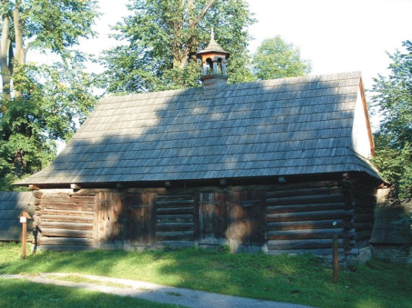 Poręba Wielka